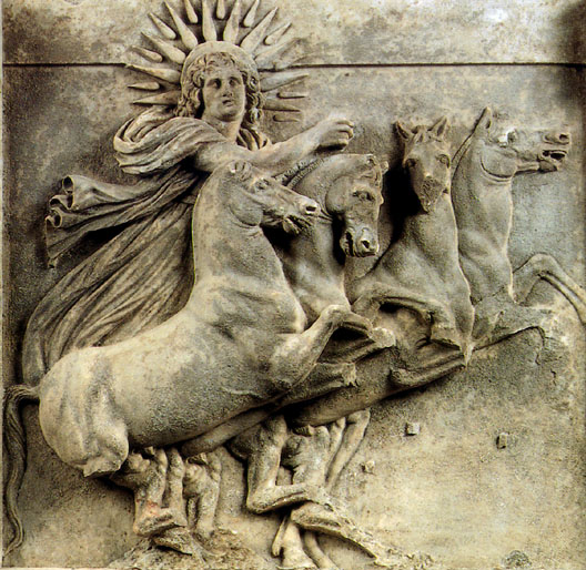 Relief showing Helios, sun god in the Greco-Roman mythology. From the North-West pediment of the temple of Athena in Ilion (Troy). Between the first quarter of the 3rd century BC and 390 BC. Marble, 85,8 x 86,3 cm. Found during the excavations lead by Heinrich Schliemann in 1872, now in the Pergamon-Museum in Berlin, Germany.